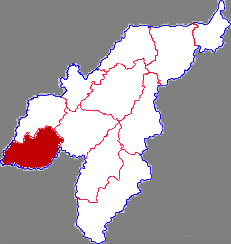 Location of Xiajin county in Dezhou City, China